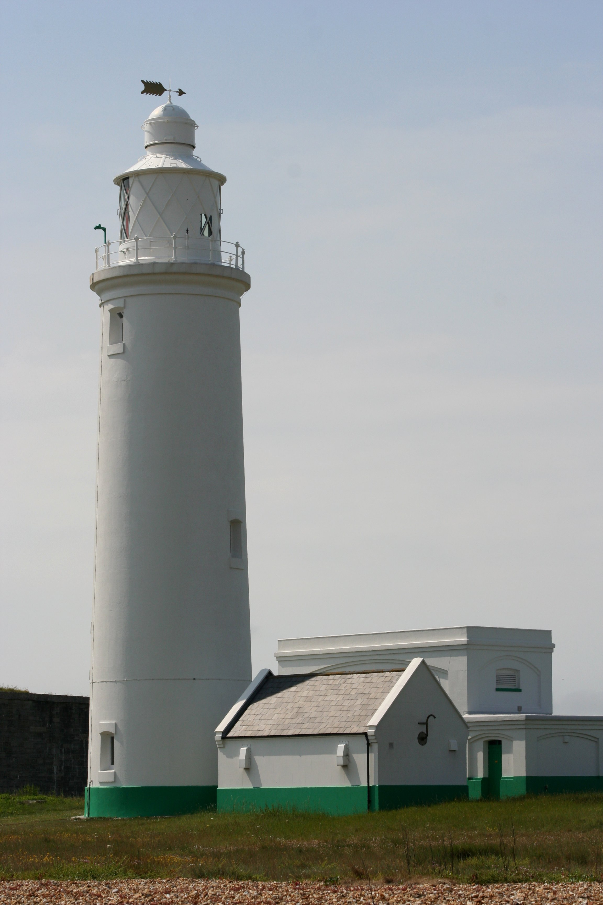 Lighthouse at Hurst Castle; sometimes called the "High Lighthouse". Built in 1867; modernized in 1997.